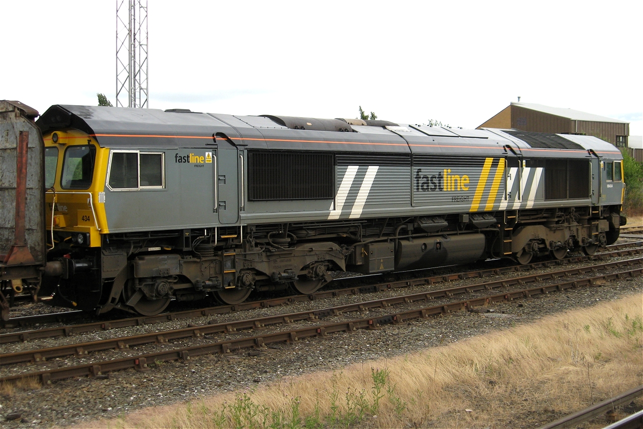 DRS owned 66434 in Fastline Freight livery at Chester whilst working a log train for Colas Rail.